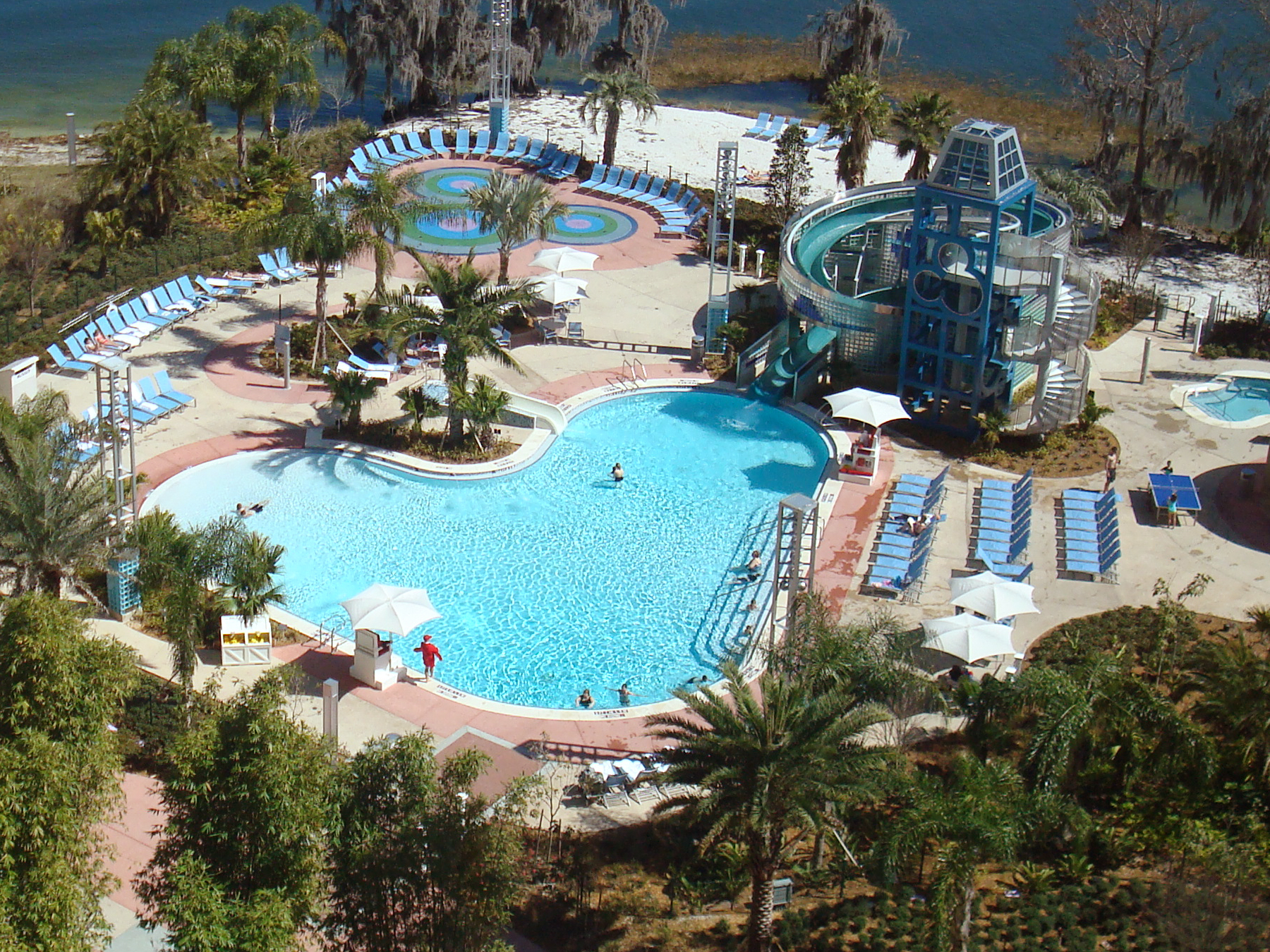 Bay Cove Pool, the main pool for Bay Lake Tower at Disney's Contemporary Resort